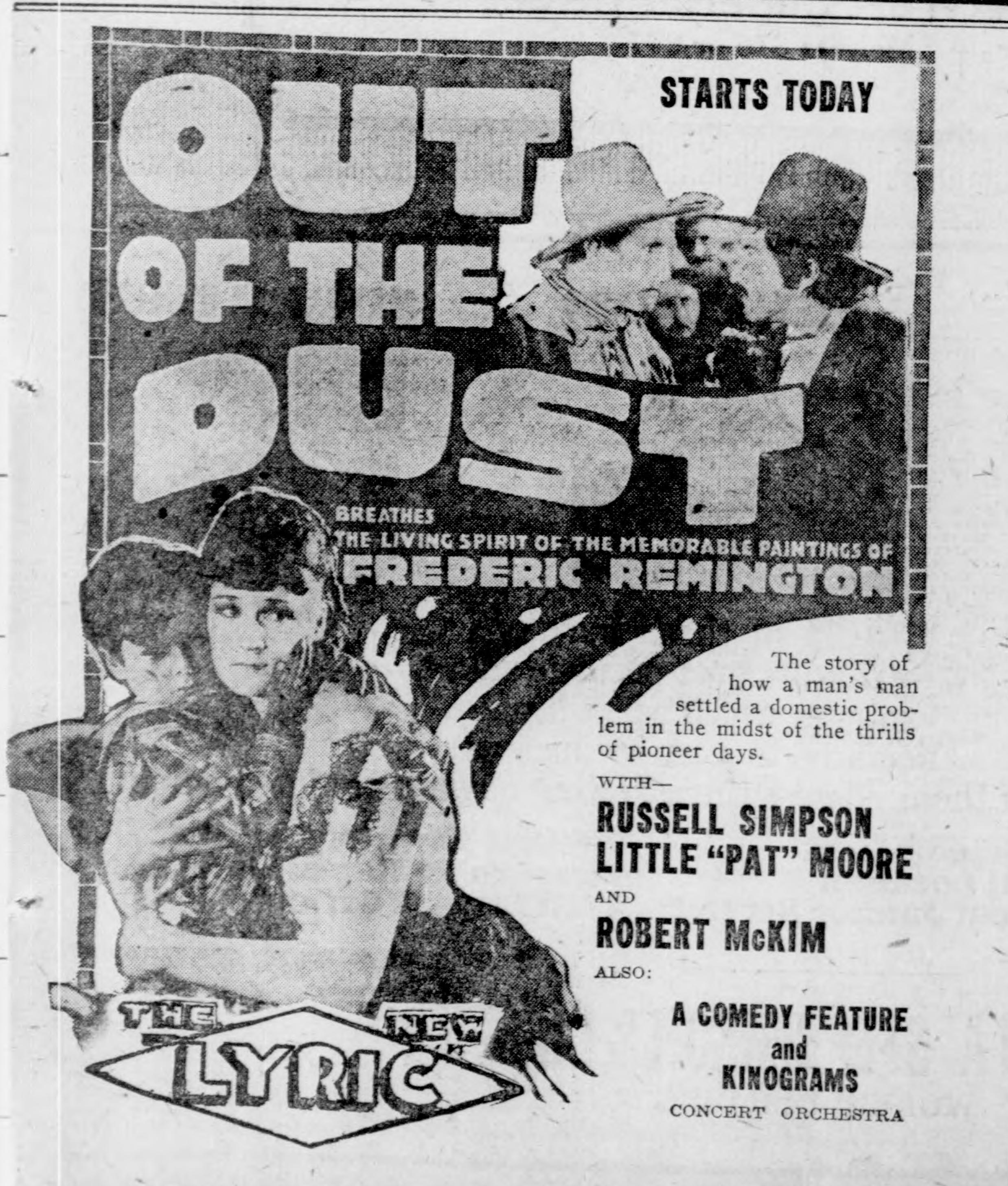 Newspaper advertisement for the American western film Out of the Dust (1920) with Russell Simpson, Dorcas Matthews, and Michael D. Moore (as "Little Pat Moore" in the ad), on page 9 of the September 24, 1921 Duluth Herald (page 433 of the Minnesota Historical Society's collection).